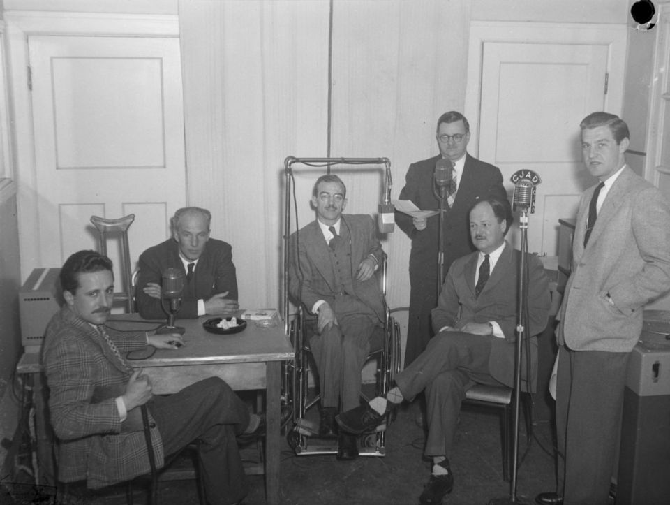 Men in a recording studio CJAD radio station in Montreal. There are four microphones in the room.